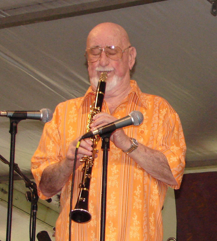 Pete Fountain at the New Orleans Jazz & Heritage Festival